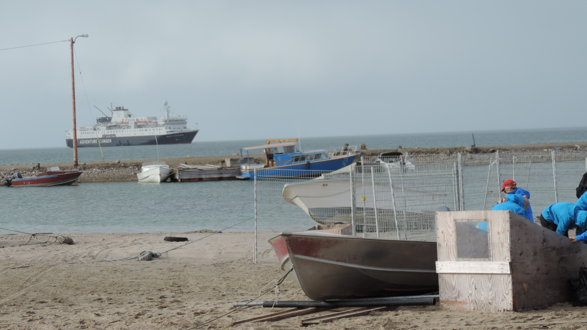 Gjoa Haven shoreline with Ocean Endeavour moored off-shore, September 2019